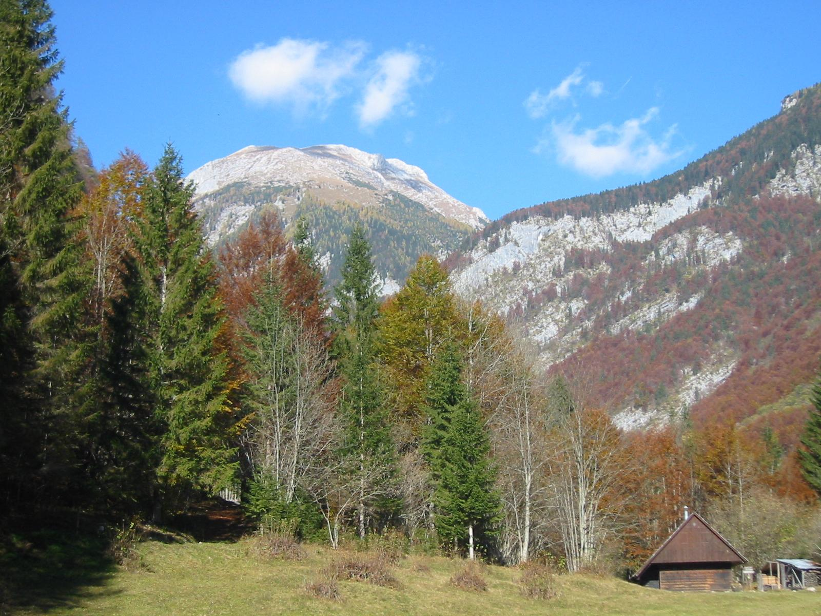 Tosc. 2275 meters, mountain in Julian Alps, Slovenia. View from Voje valley near Bohinj photo:Ziga 12:12, 16 April 2007 (UTC)